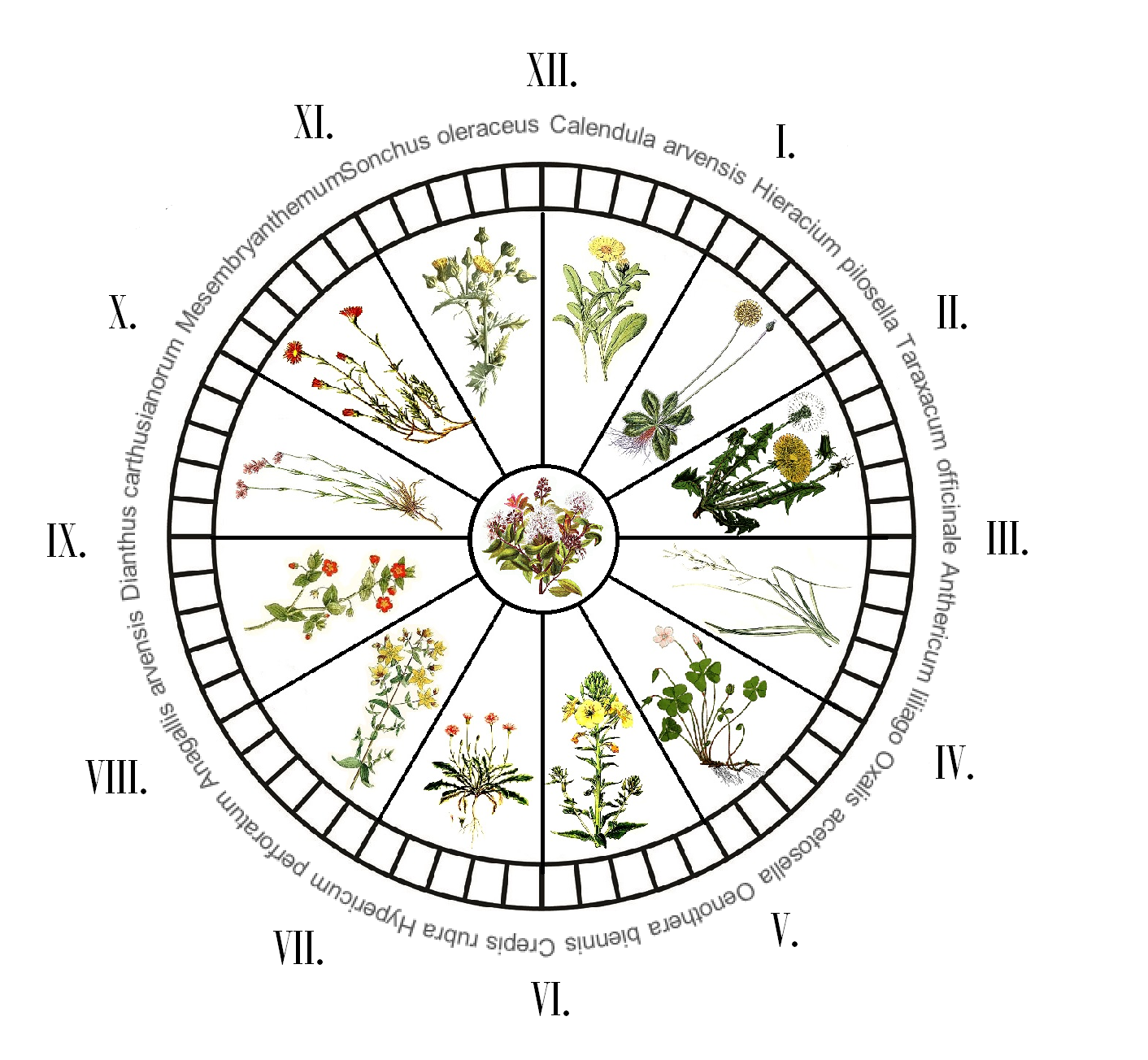 Linnaeus's flower clock